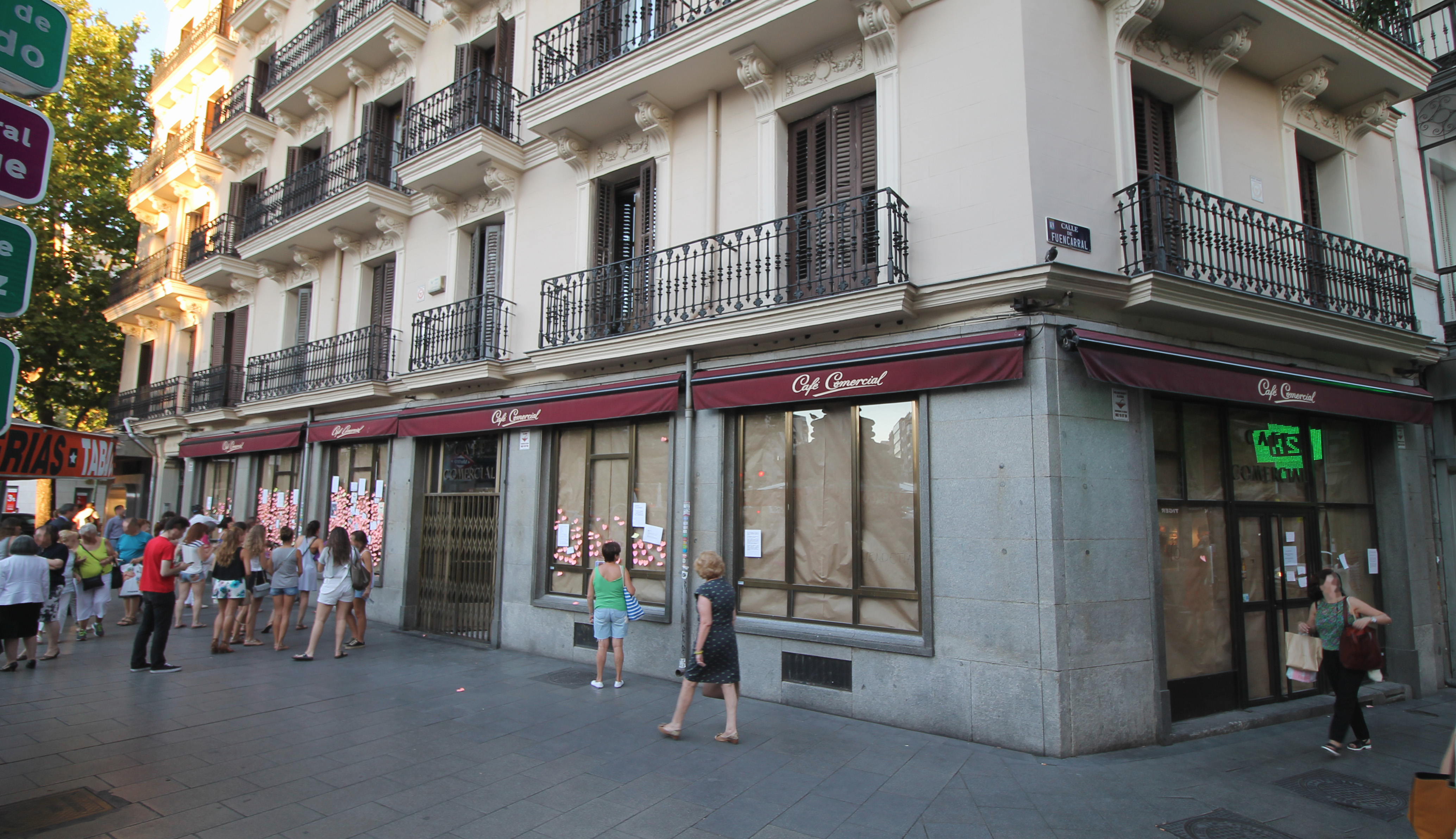 Façade of Café Comercial in Madrid (Spain).